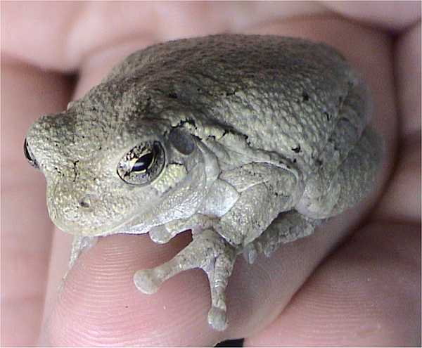 Grey Tree Frog, Hyla versicolor photographed by LA Dawson